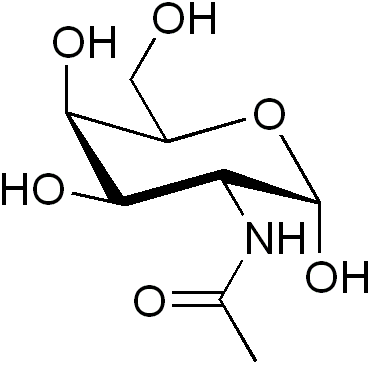 chemical structure of acetylgalactosamine